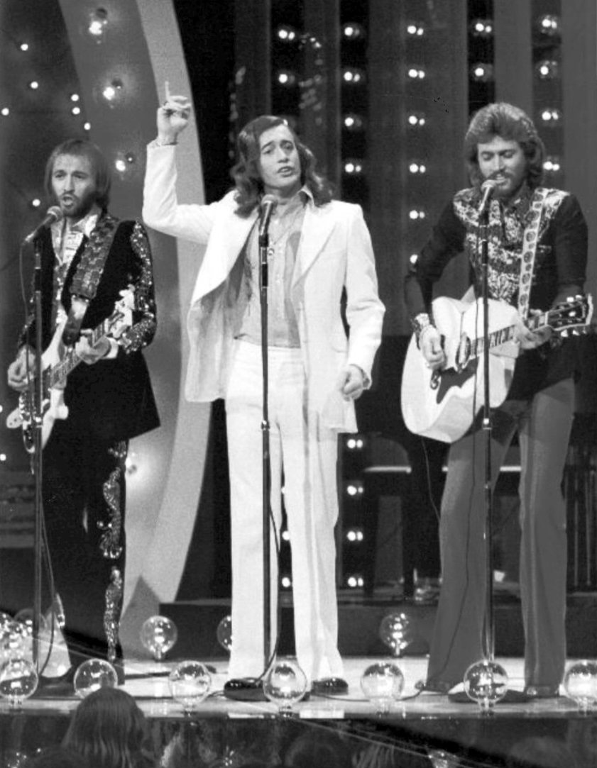 Photo of the Bee Gees performing on the television program The Midnight Special.